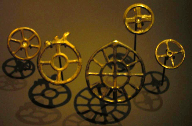 "Wheel pendants", dating to the second half of the 2nd millennium BC, found in Zürich, kept in the Swiss National Museum. Basic "sunwheel" design (cross in circle); variants of this include a six-spoked wheel, a central empty circle, and a second circle with twelve spokes surrounding the four-spoked one.